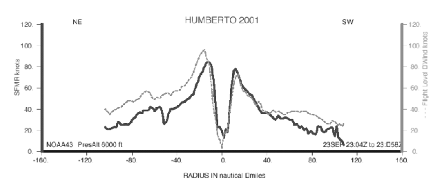 Horizontal wind profiles of flight-level (grey line) and SFMR-derived surface wind (heavy black line) during a northeast to southwest traverse across the core of Hurricane Humberto from 2304-2358 UTC 23 September 2001. Flight level of the NOAA WP-3D aircraft was 850 mb. Diagram courtesy of Dr. Peter Black, NOAA/Hurricane Research Division.